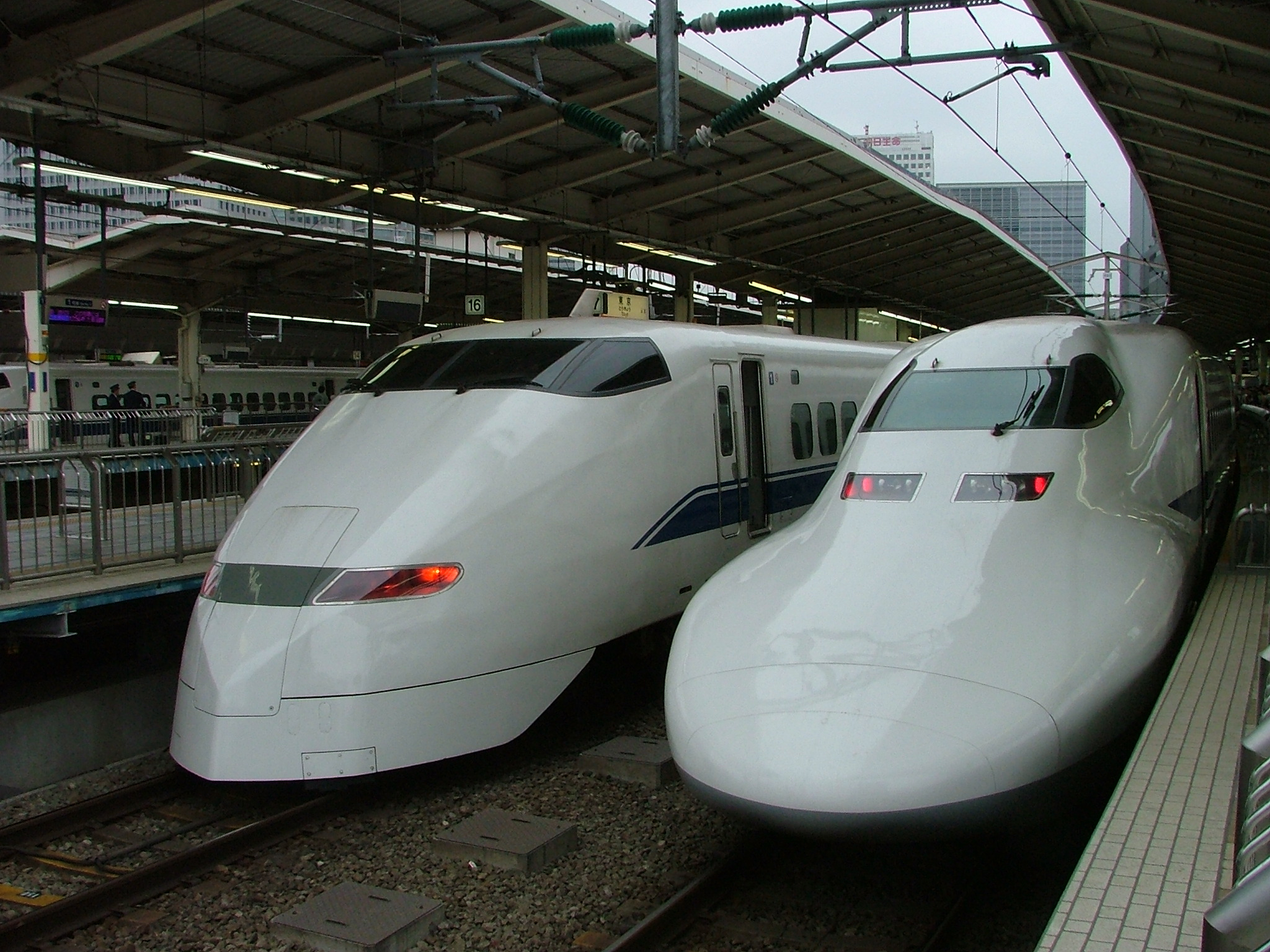 300 (Left) and 700 Series Shinkansen at Tokyo Shinkansen Station; Tokyo, Japan. Photographed by Richard Brown